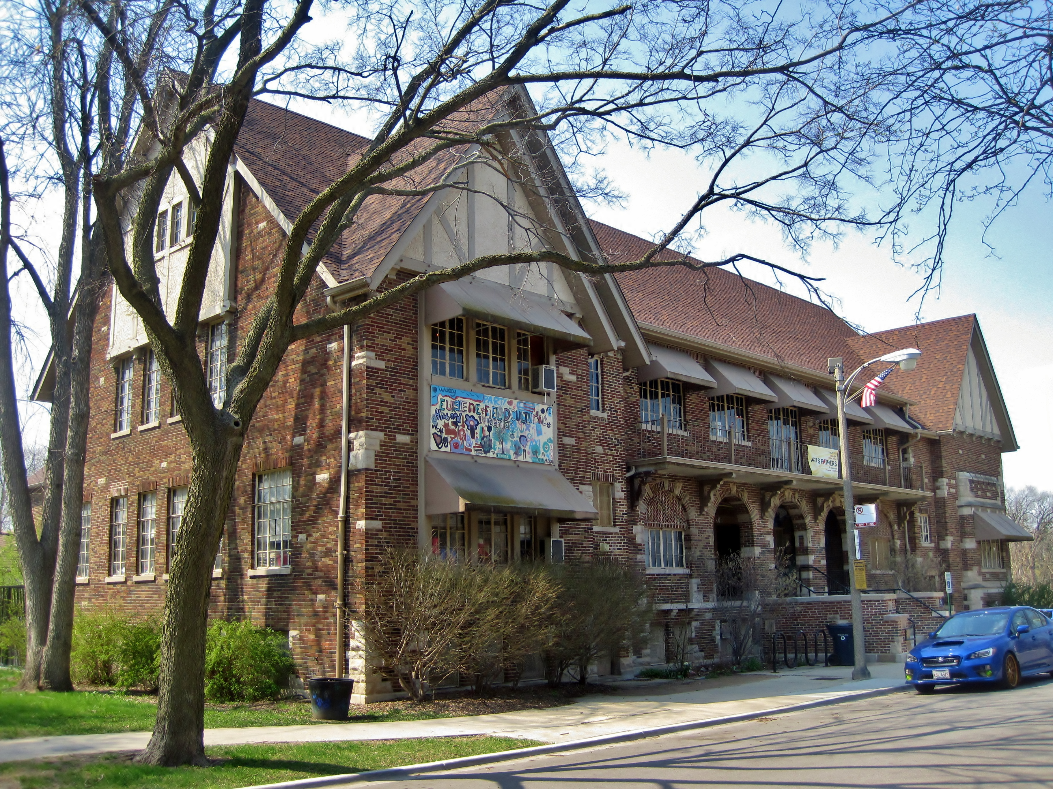 Field House at Eugene Field Park, Chicago (1930). The second floor has a 1941 painting of Field and a mural, "The Participation of Youth in the Realm of the Fine Arts"